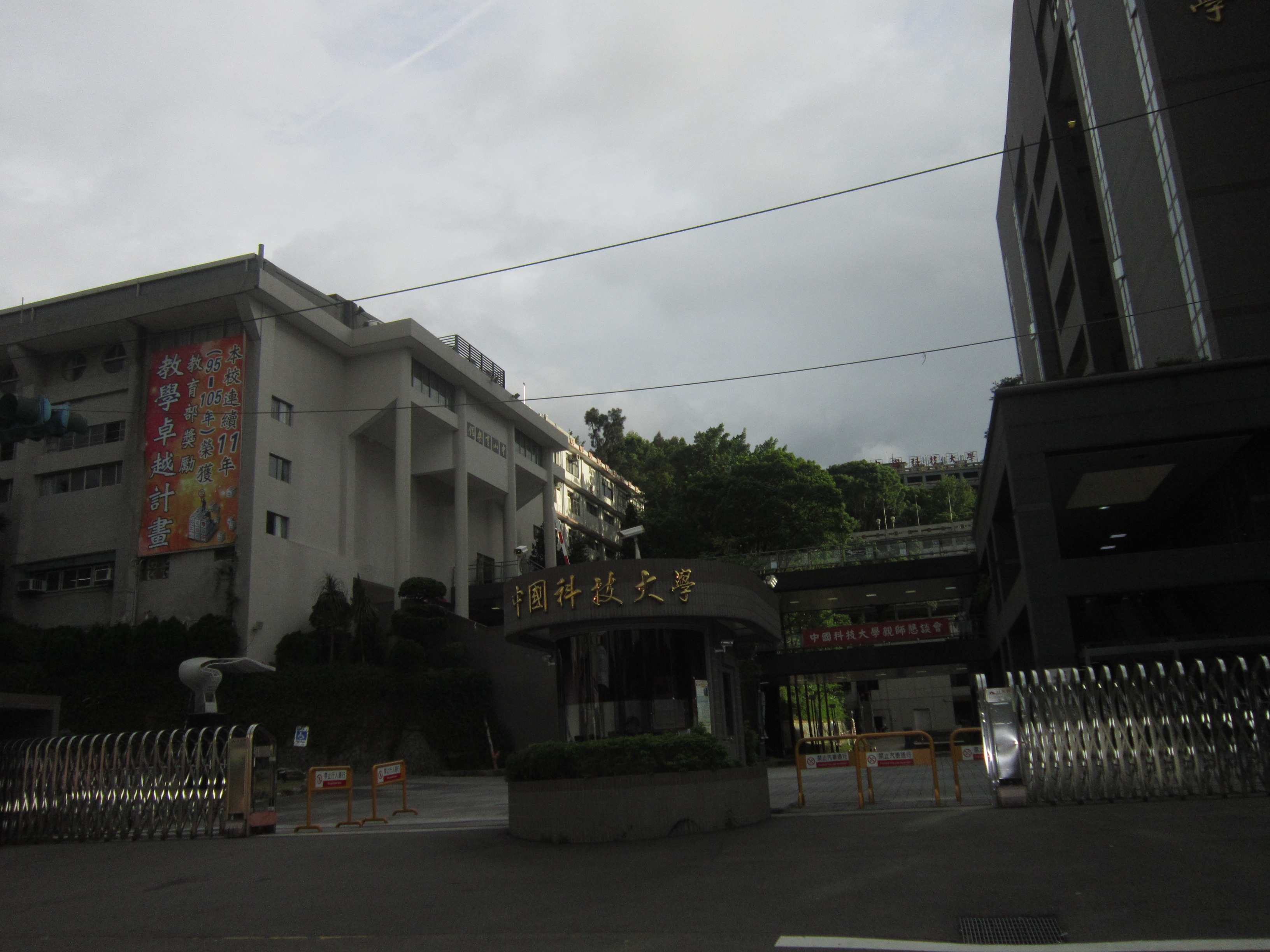 China University of Technology_TPE